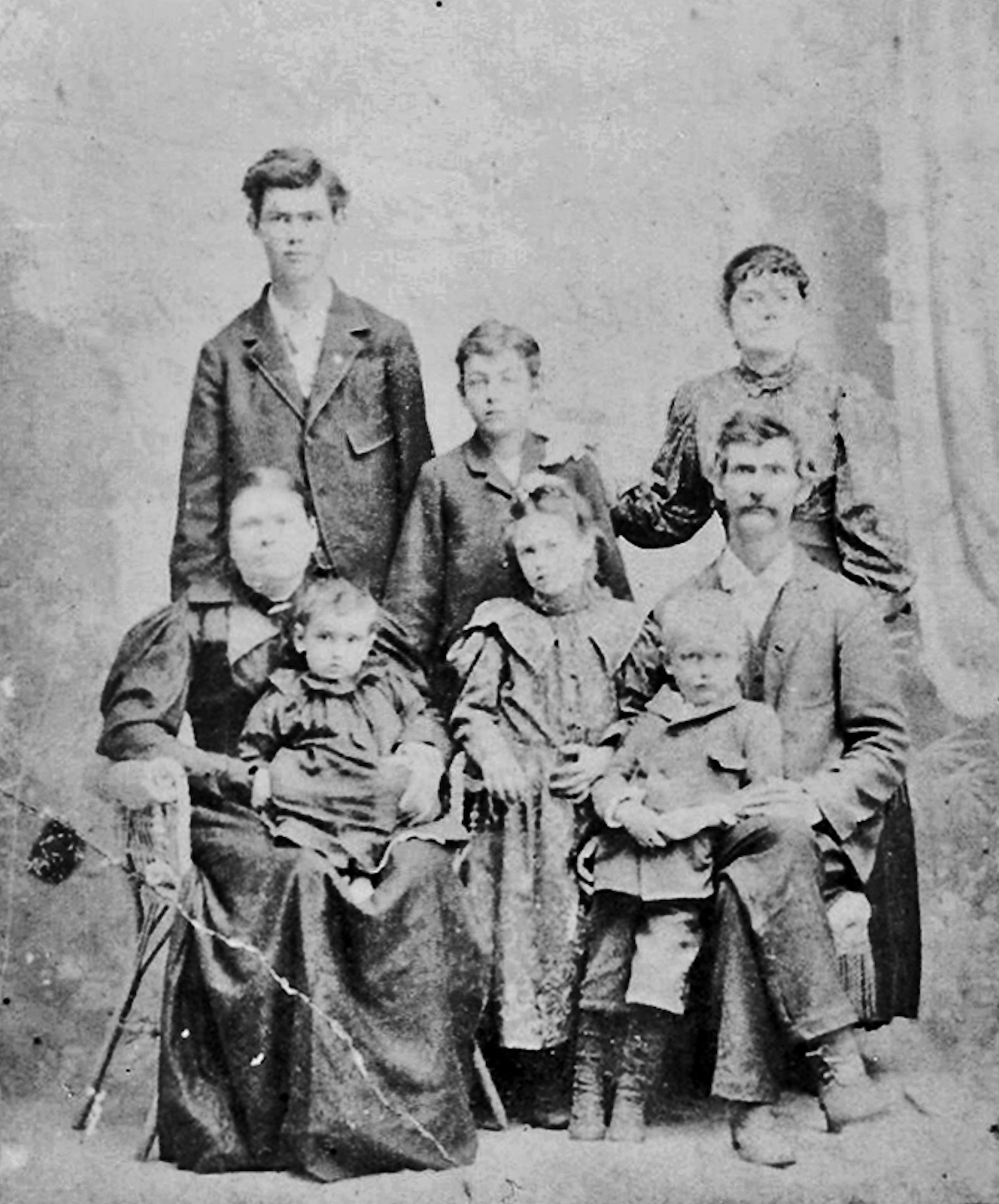 Medal of Honor recipient Archibald Freeman with family c1896